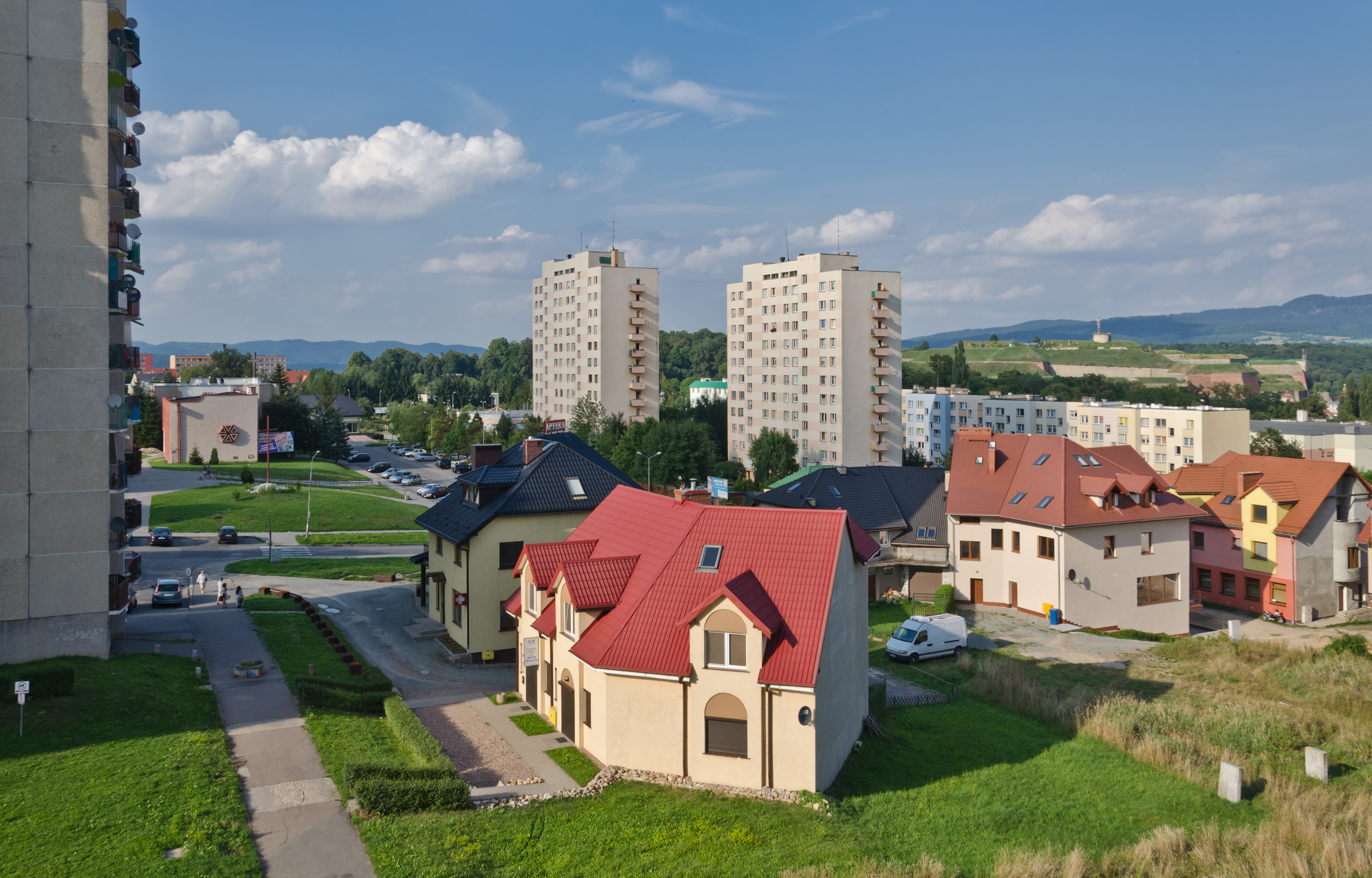 Kruczkowskiego district in Kłodzko